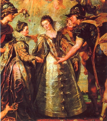 Anna of Austria, queen of France, mother of king Louis XIV